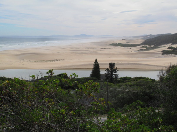 Vanstadens Mouth, South Africa